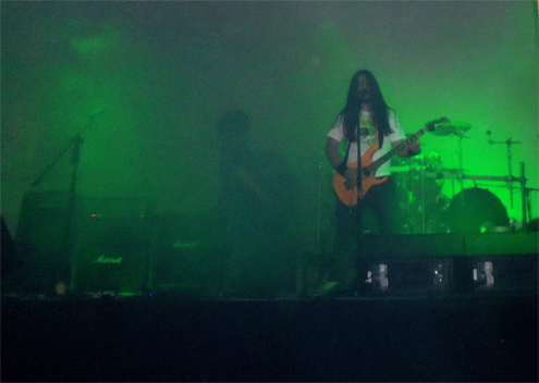 Kraptor in concert at Metal Bunker in San Luis Potosí, Mexico. From their tour "Kraptor's Undead Chronicles Tour Mexico 2012". Photo by me.